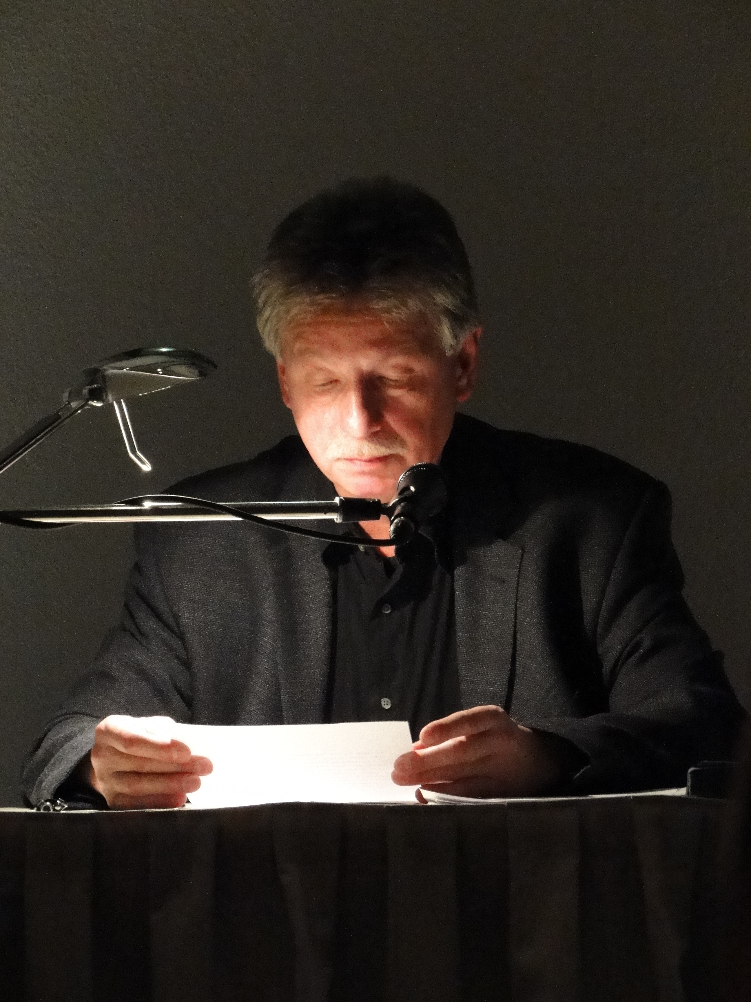 Reinhard Jirgl (German writer) in Frankfurt am Main